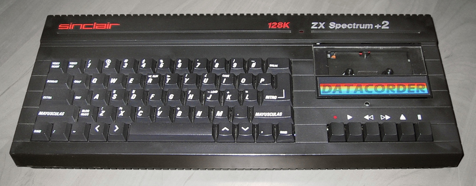 Picture of a Sinclair ZX-Spectrum 128 +2 Doppelgangland owns. (Usage on Wikipedia and appearance suggests that this is the revised Spectrum +2A version)